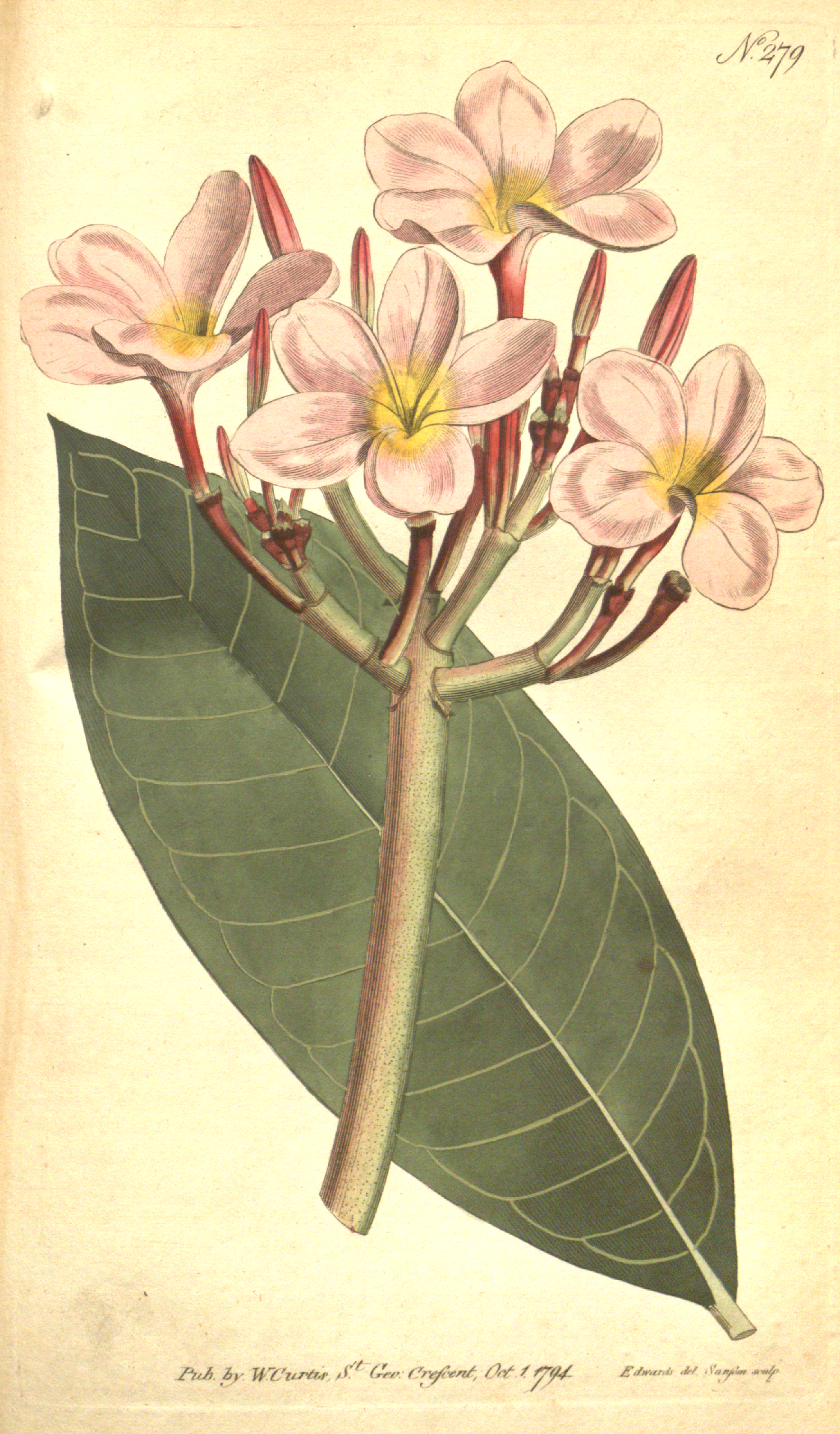 This is a plate from The Botanical Magazine, Volume 8.